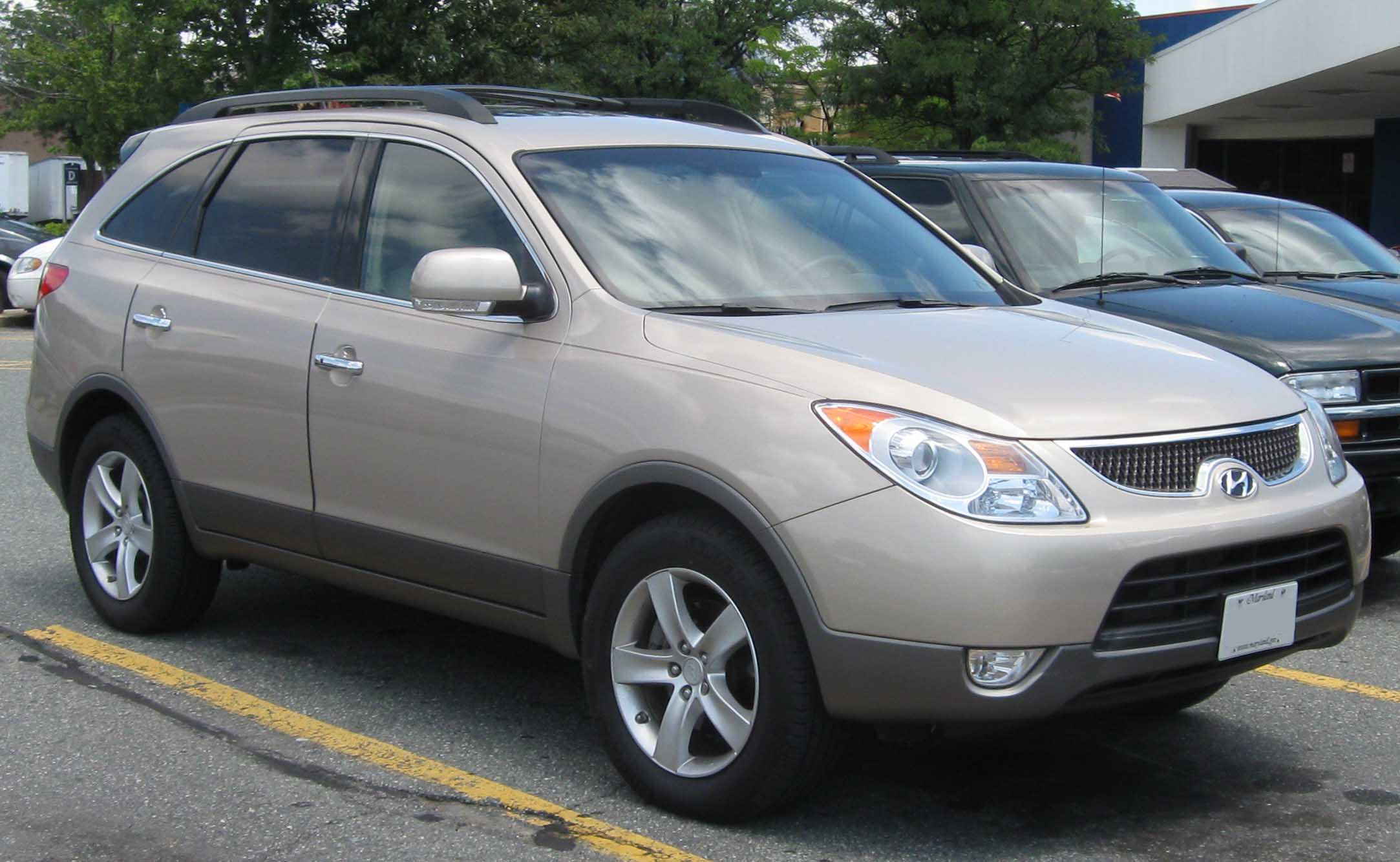 Hyundai Veracruz photographed in Gaithersburg, Maryland, USA.